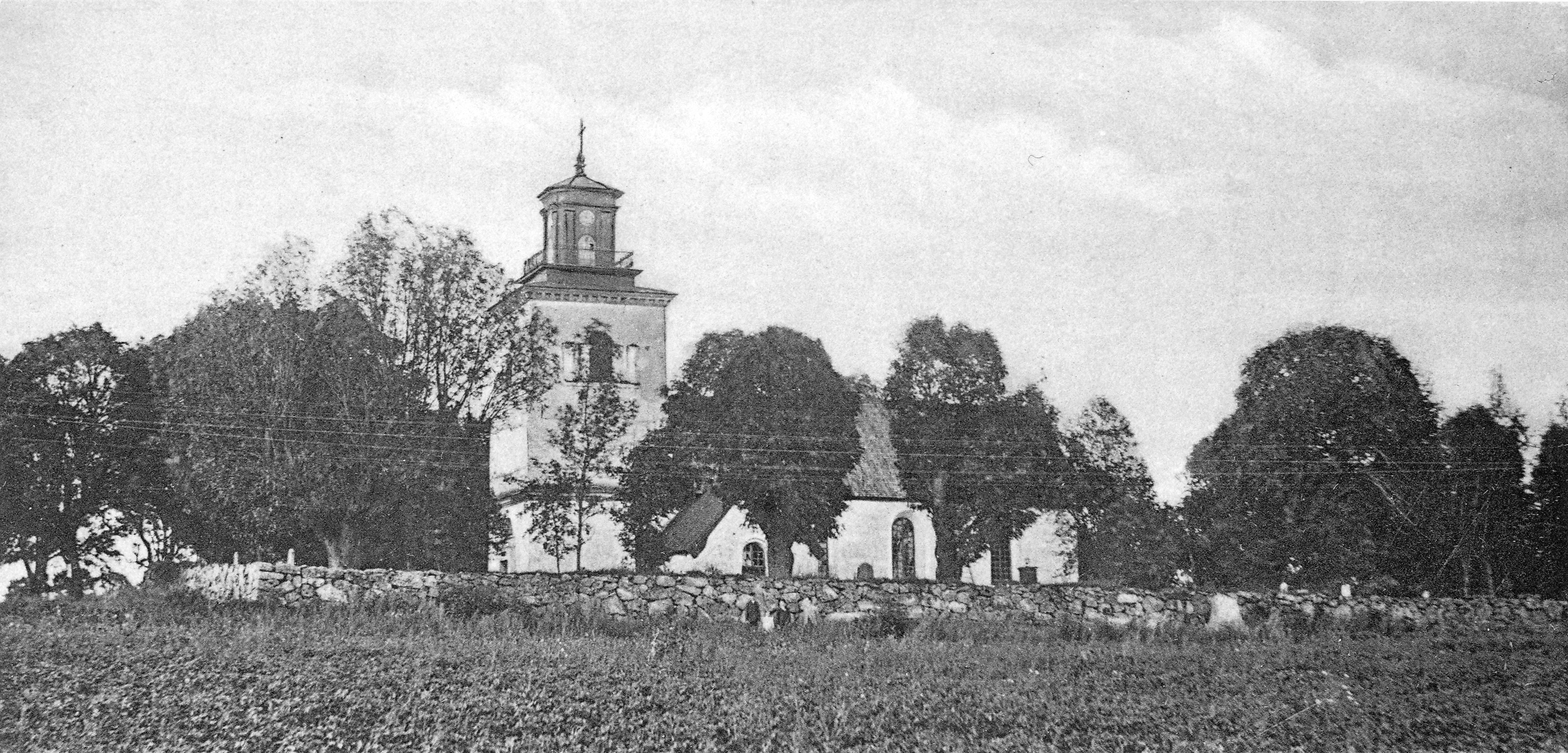 Övergran church